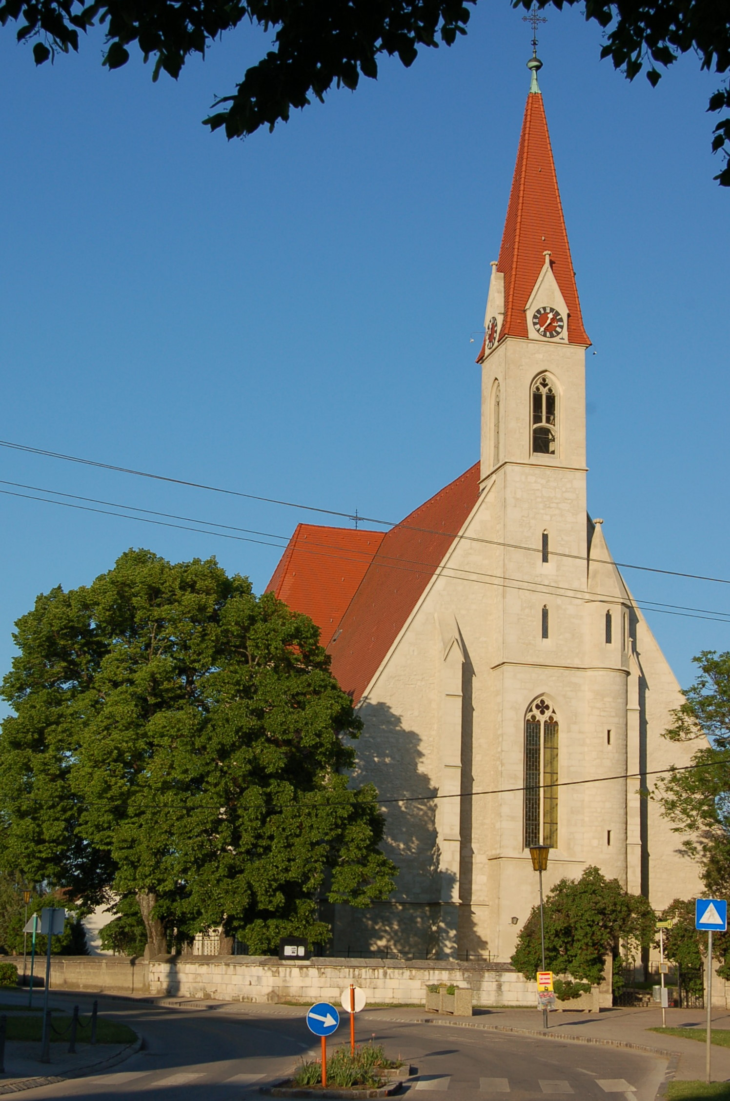 St. Jacob parish church, Lichtenwörth, Lower Austria